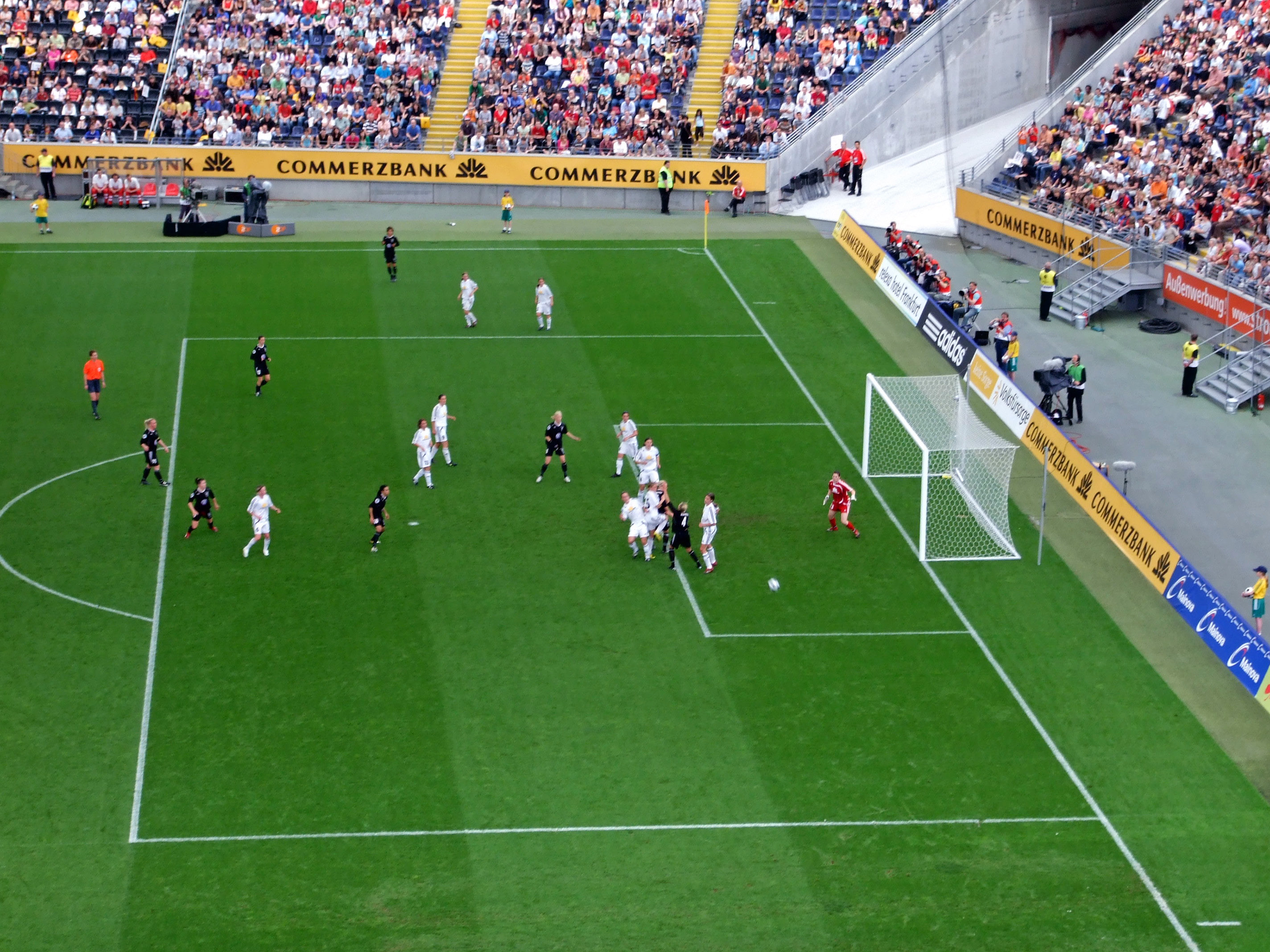 2. half, attack Umeå against 1. FFC, UEFA-Women's-Cup 2007/2008 at Commerzbank-Arena in Frankfurt